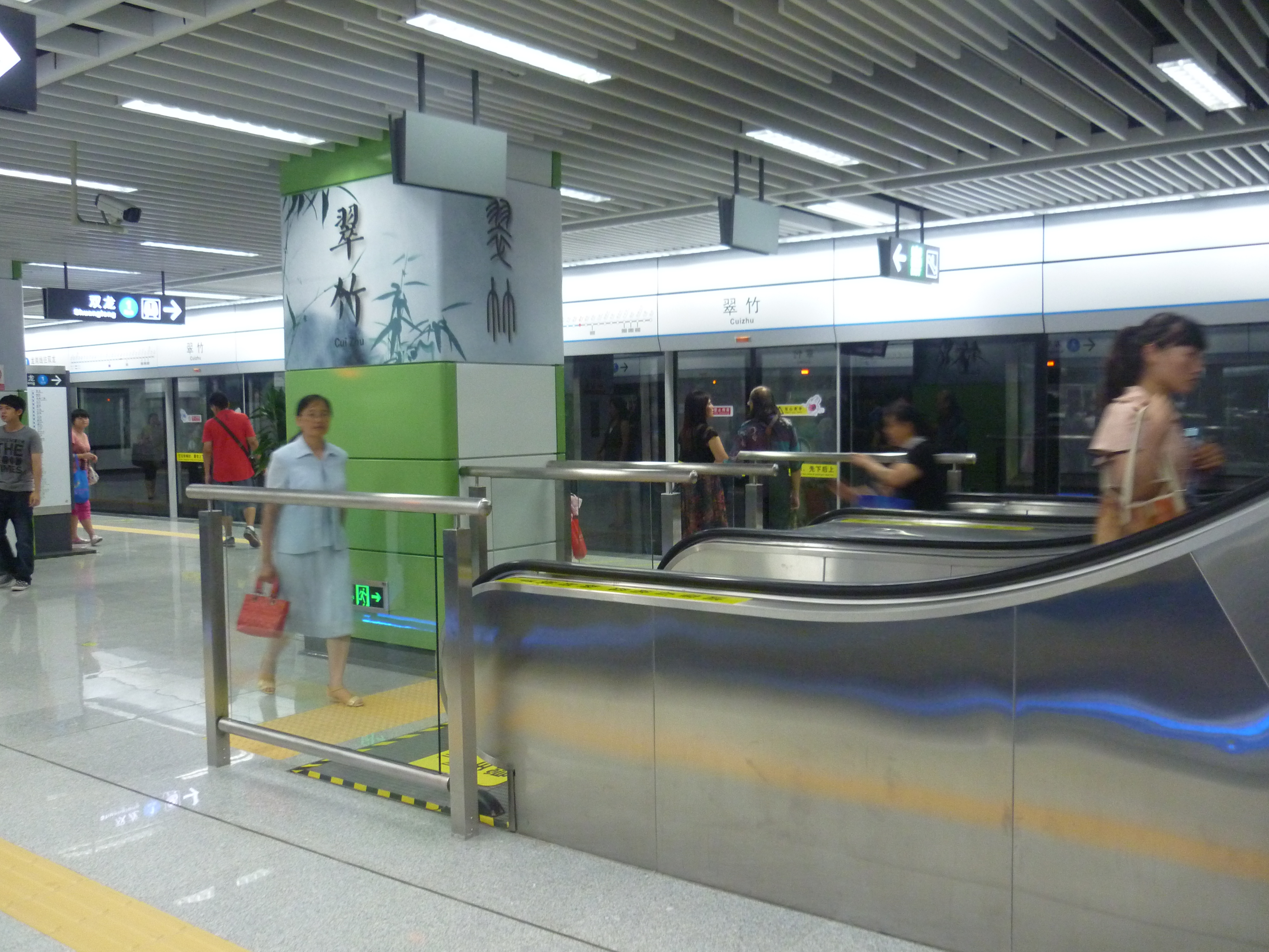 Platform of Cui Zhu Station.